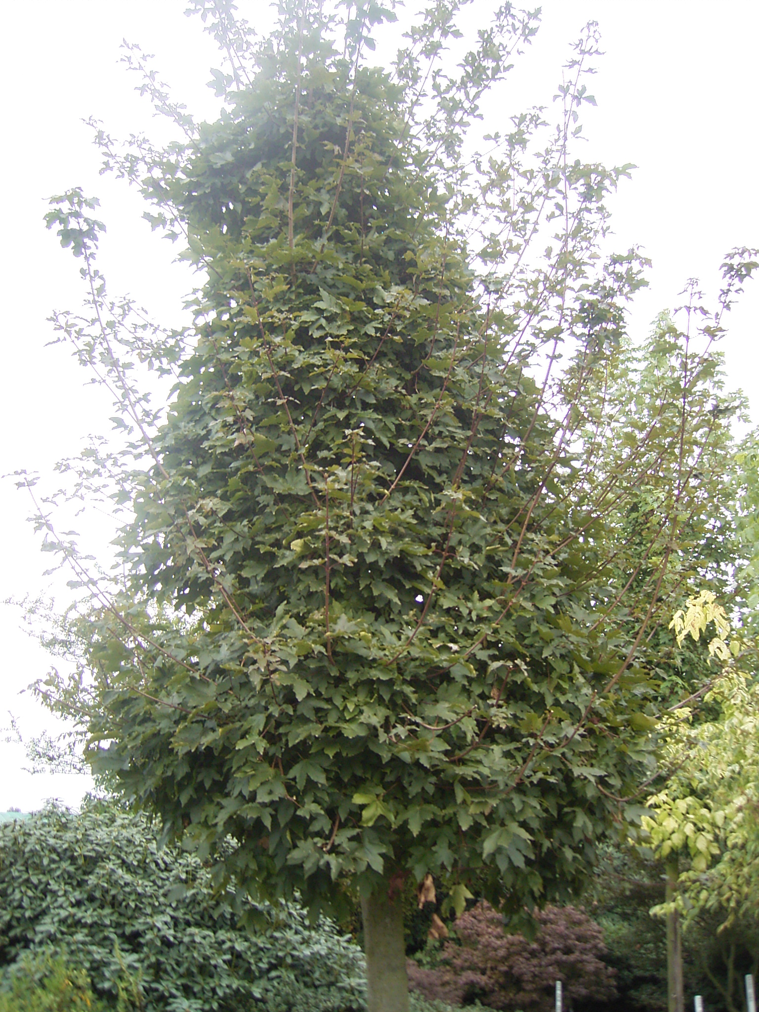 This photo shows acer zoeschense 'annae'